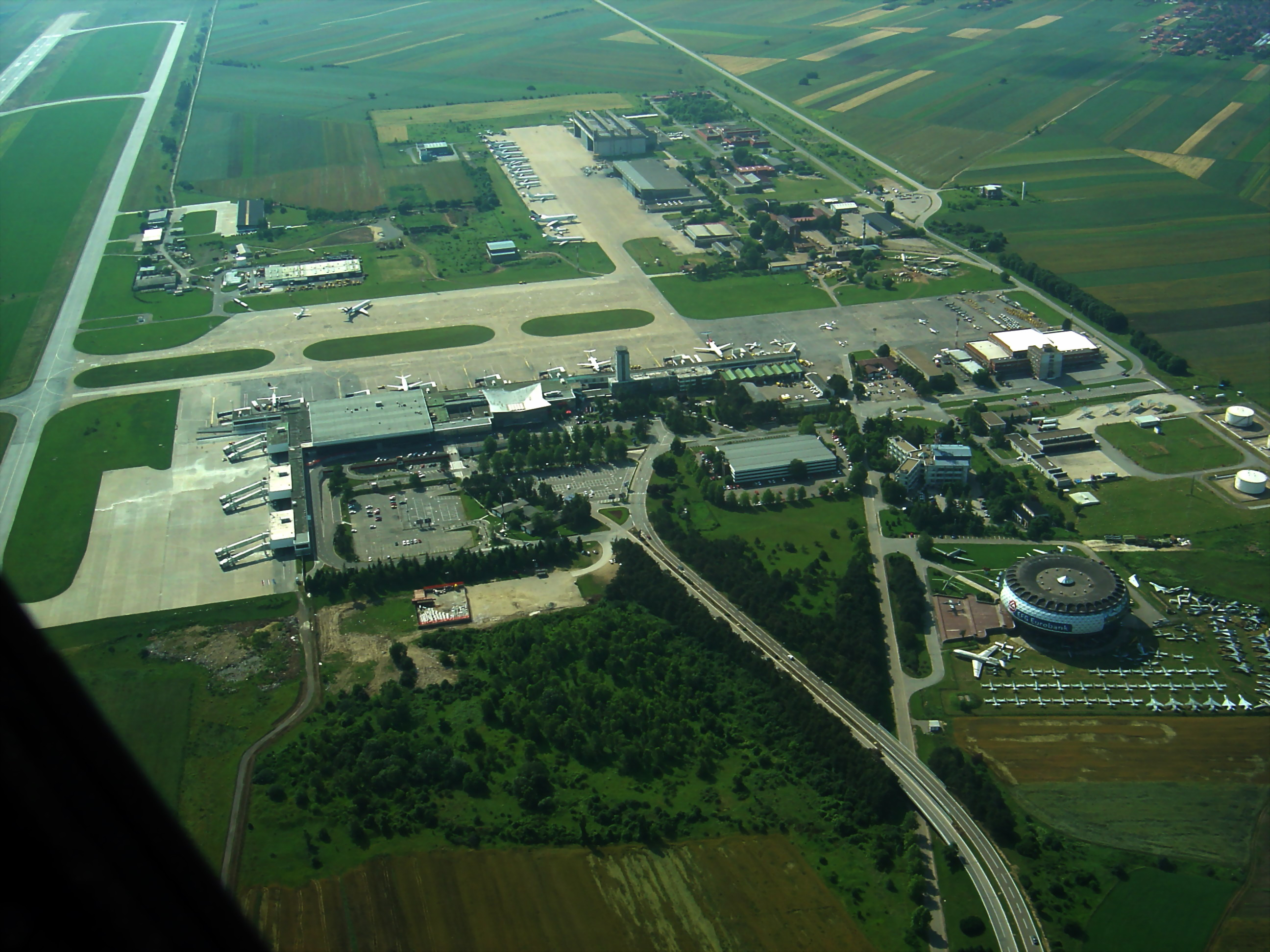 Kompleks AB-JAT-MVB